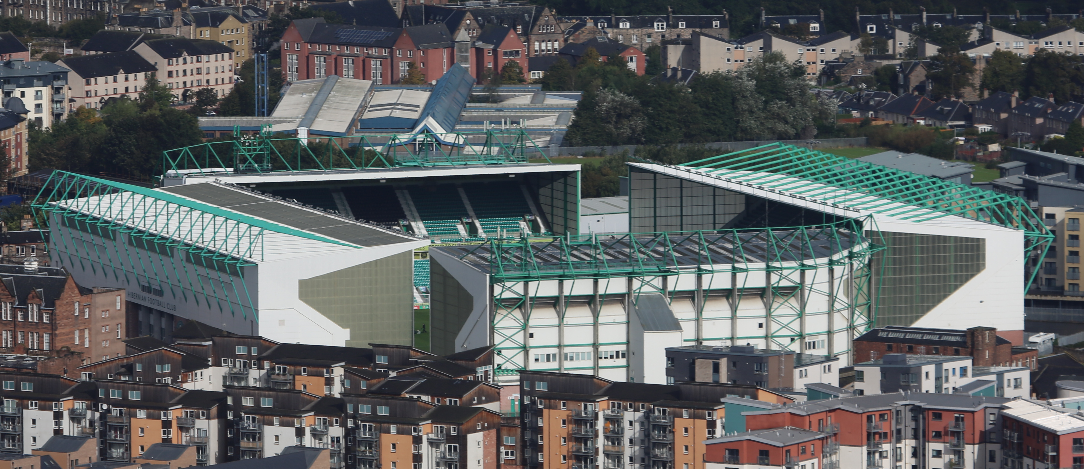 Photo of Easter Road Stadium taken from Arthur's Seat